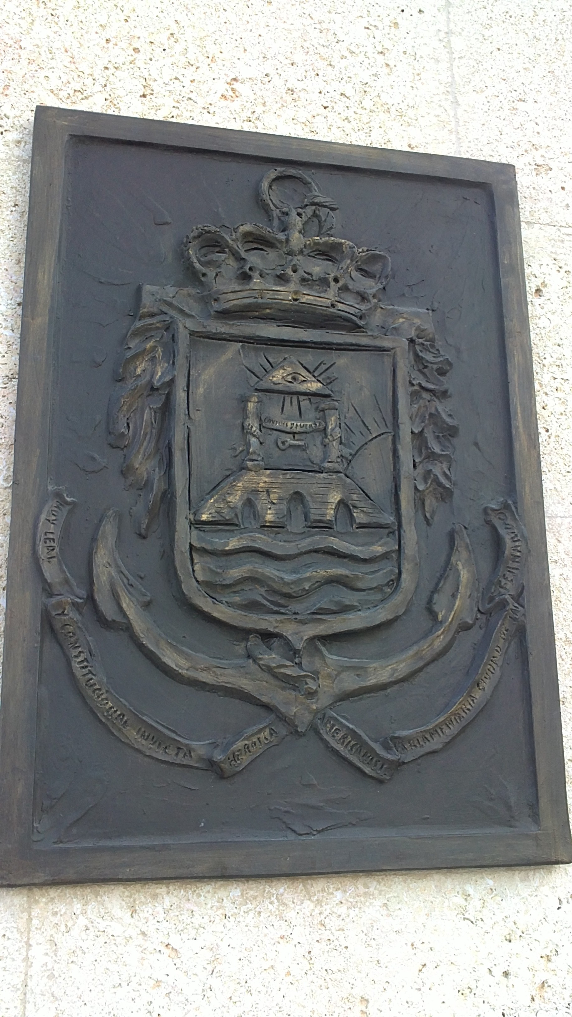 Shield of the city of San Fernando (Spain)